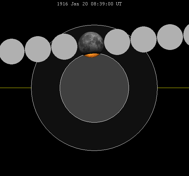 lunar eclipse chart of moon's path through the earth's shadow. thumb